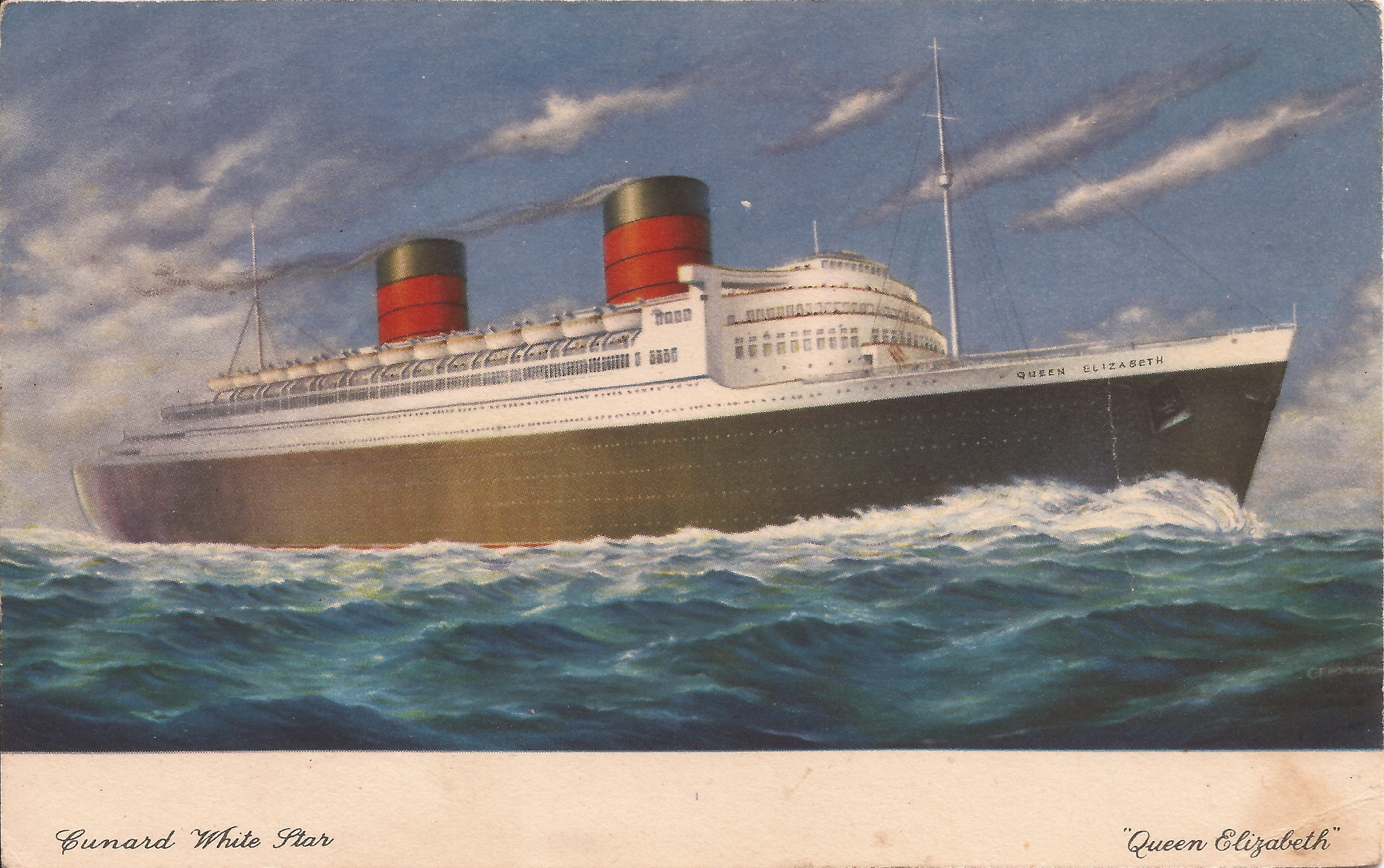 Postcard of the Cunard White Star "Queen Elizabeth"